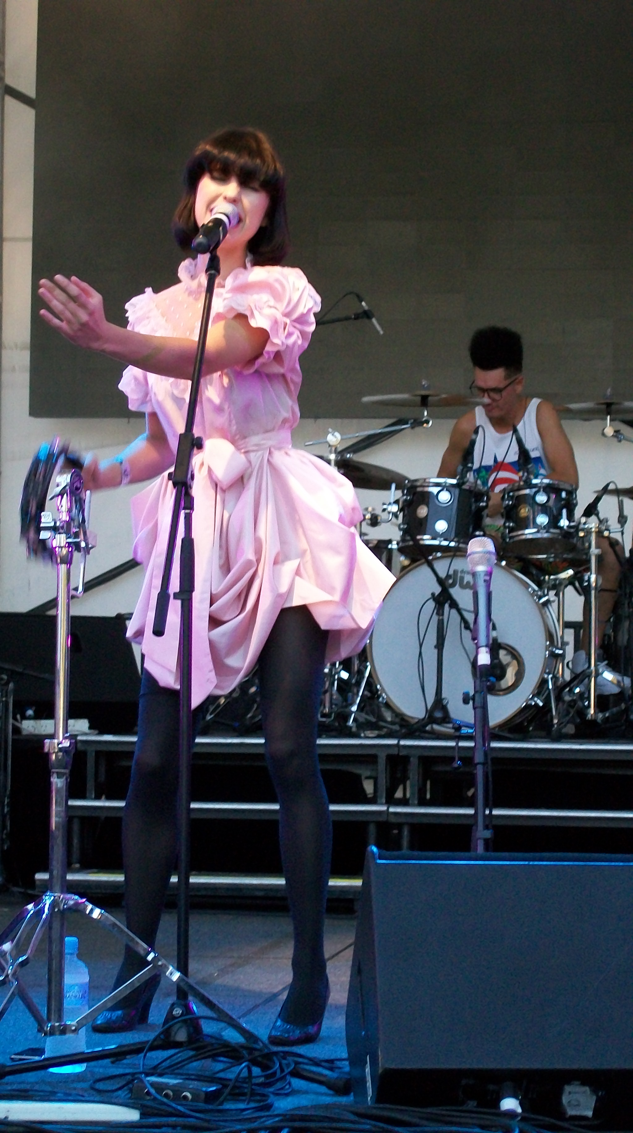 Photograph of Kimbra on stage at the 2011 Moomba Festival.